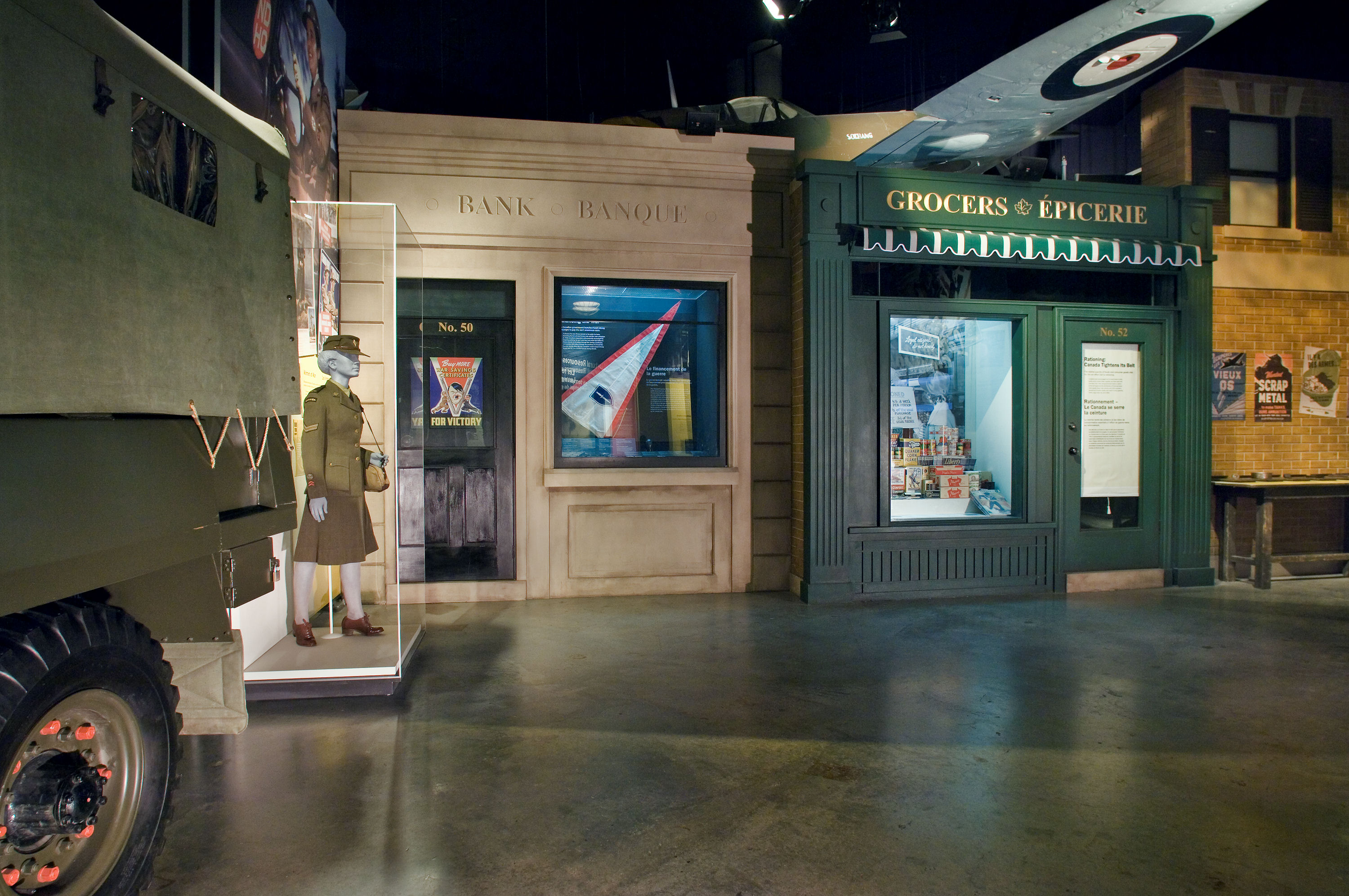 Gallery 3 of the CWM